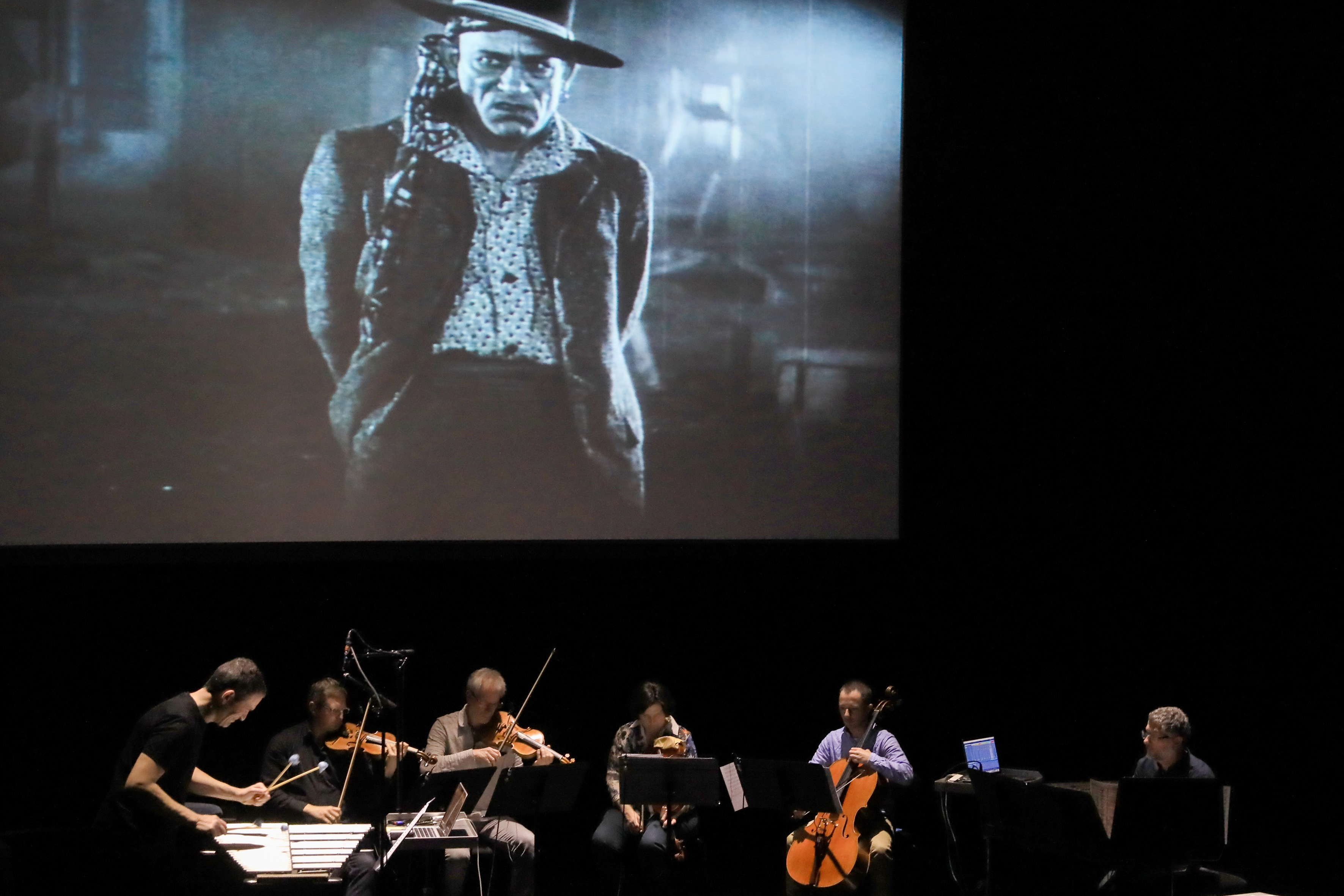 "L'Inconnu" ("The Unknown") a movie-concert by François Narboni (2018)